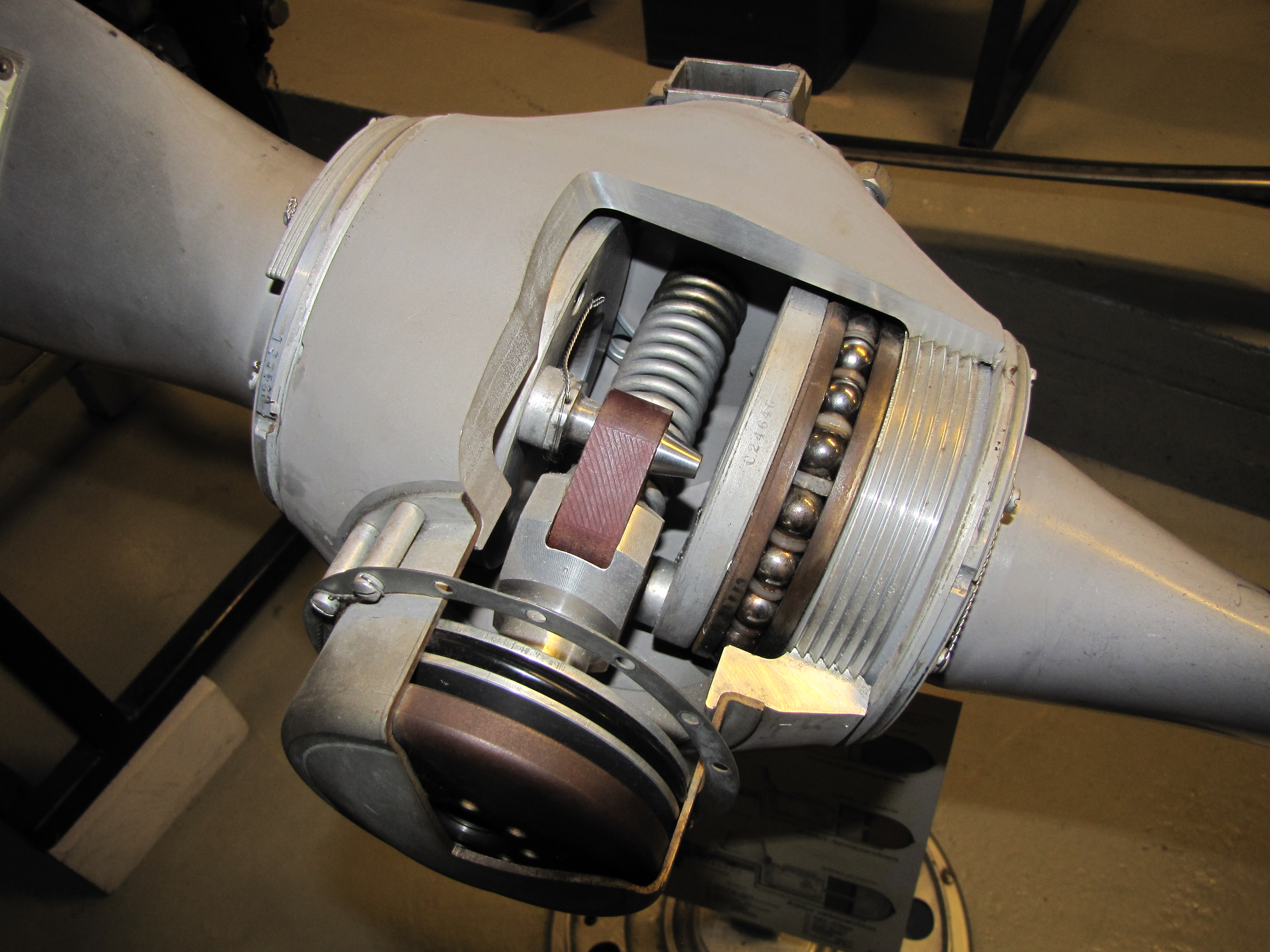 Cutaway constant speed propeller hub in Finnish Aviation Museum. McCauley 2 A 36 C 23-OD propeller from Beechcraft Debonair.